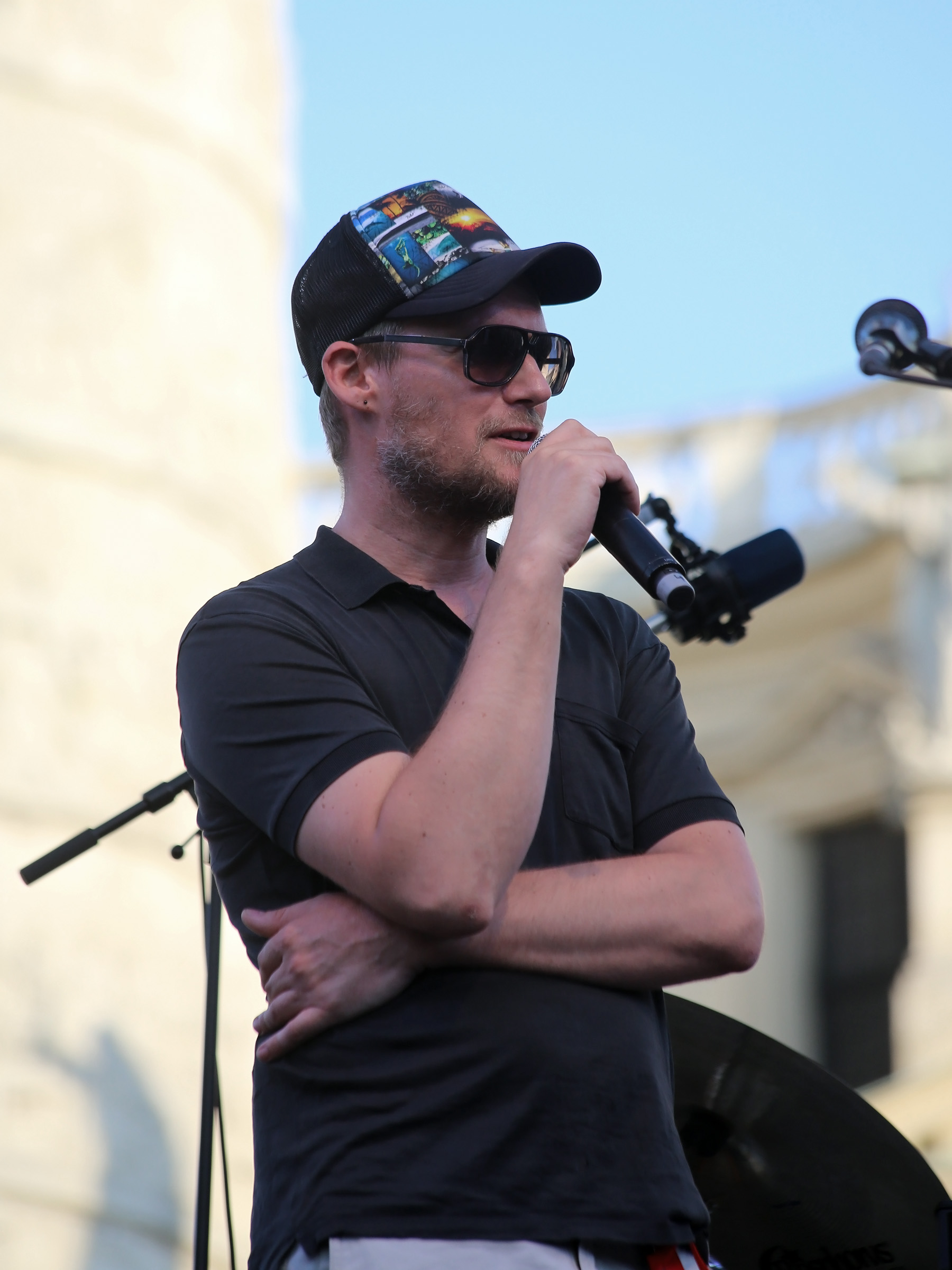 Patrick Pulsinger announcing the concert of Velojet at Karlsplatz during Popfest 2013 in Vienna, Austria.